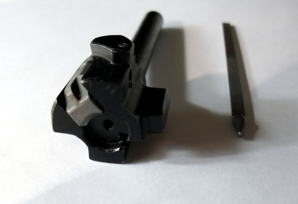 AK74 automatic carbine rotating bolt and striker.